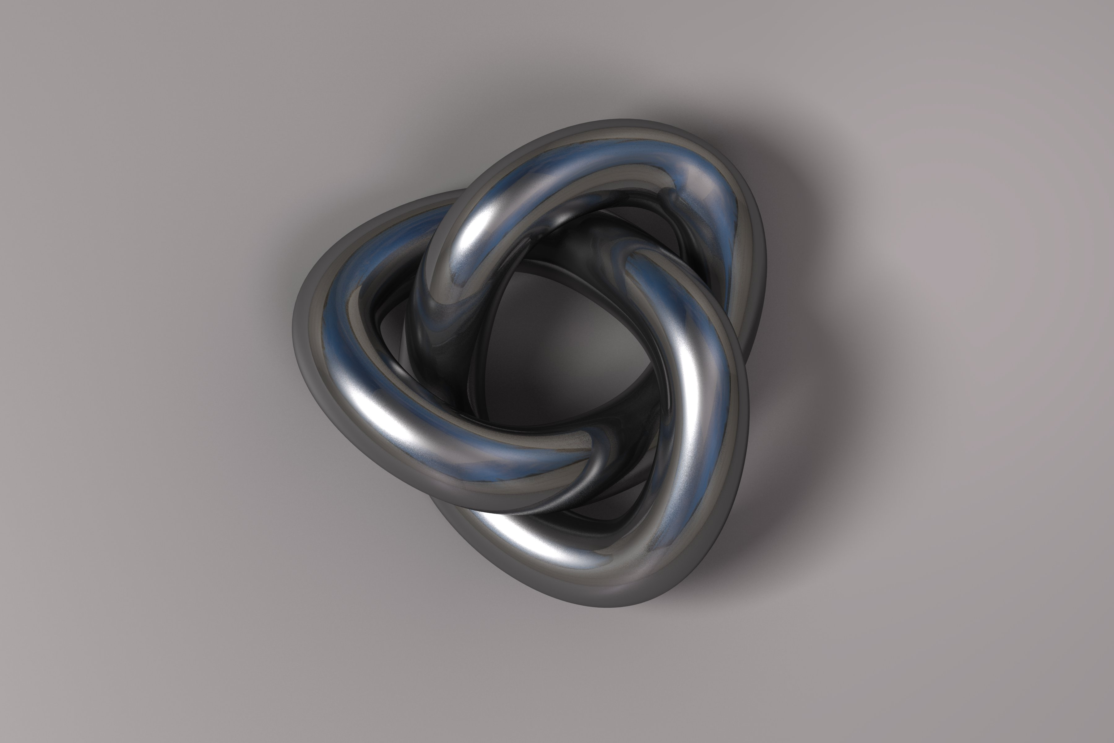 Trefoil knot